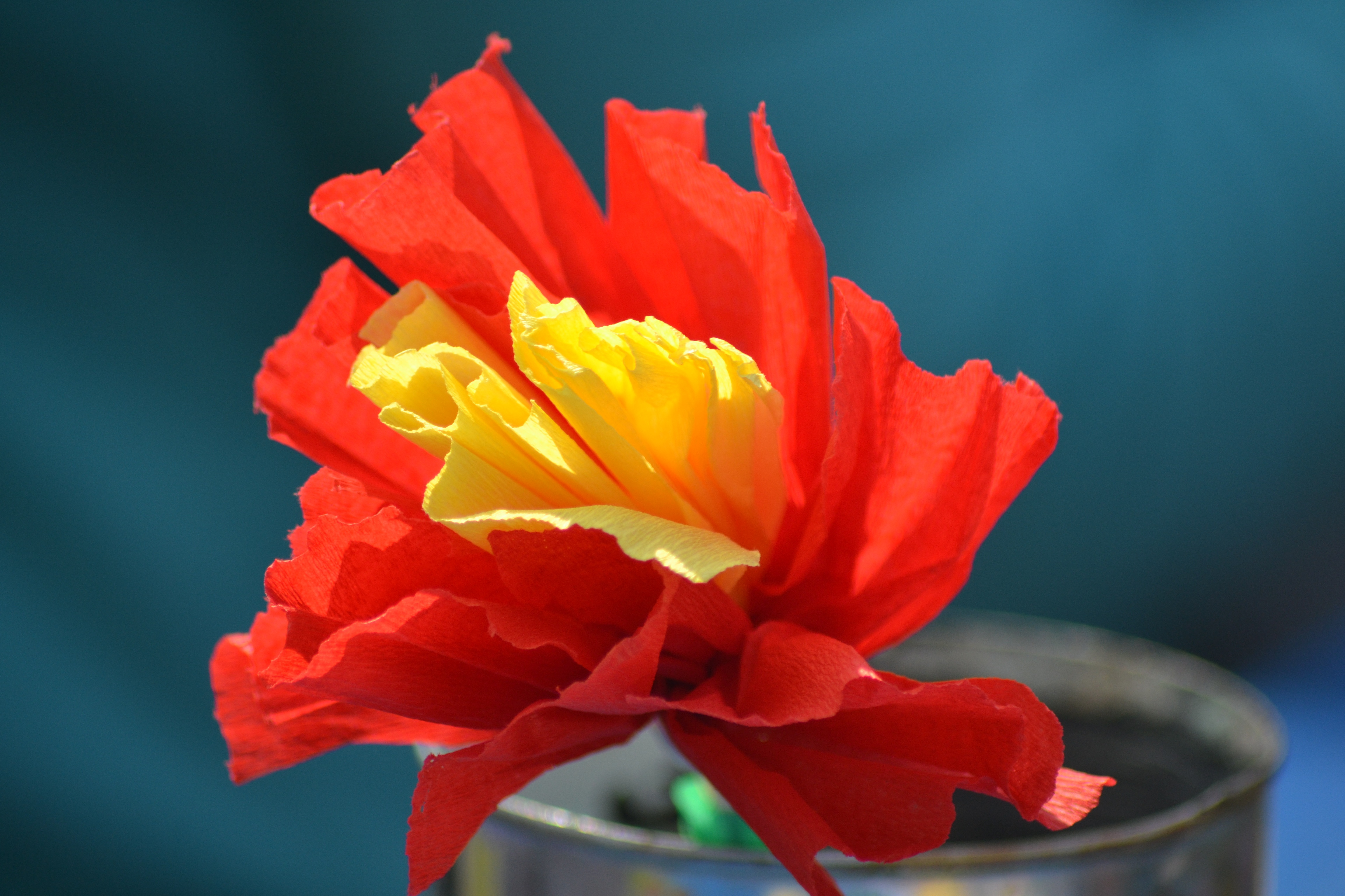 Crêpe-paper flower